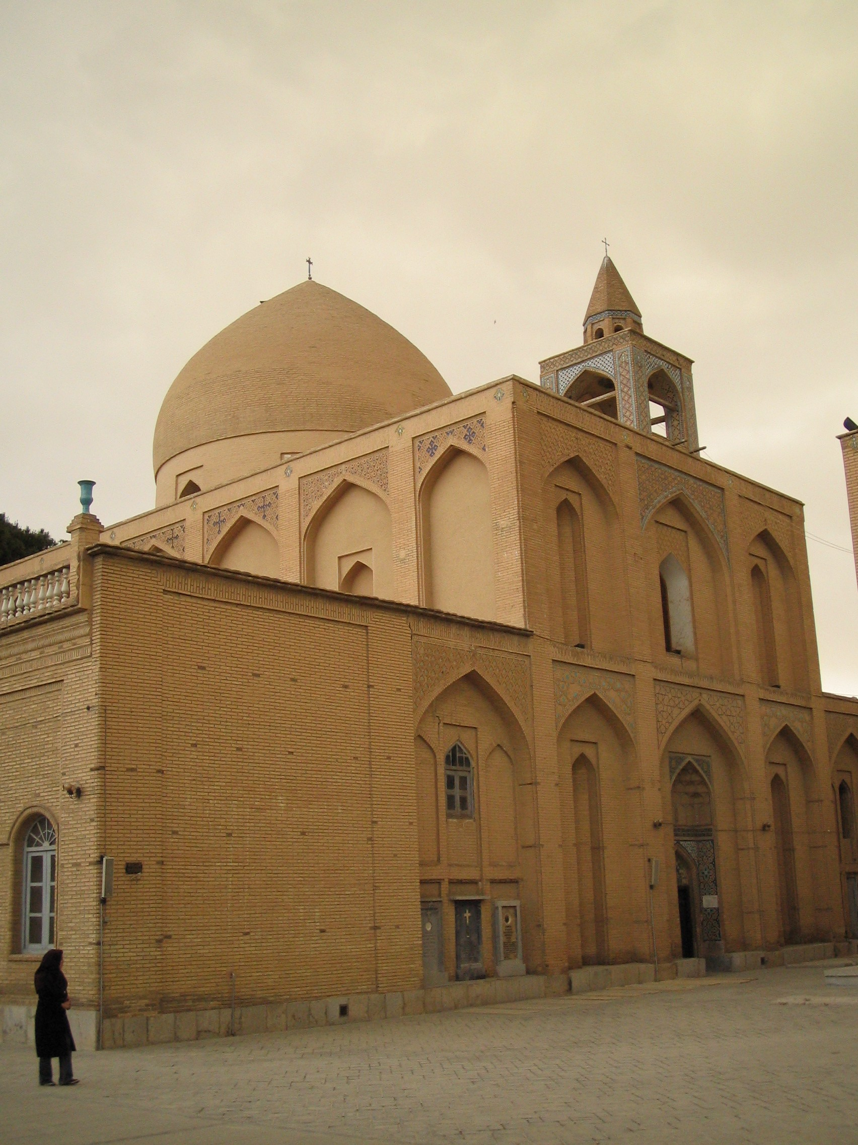 Kelisa-e-Vank in new Jolfa area, Esfahan, Iran.